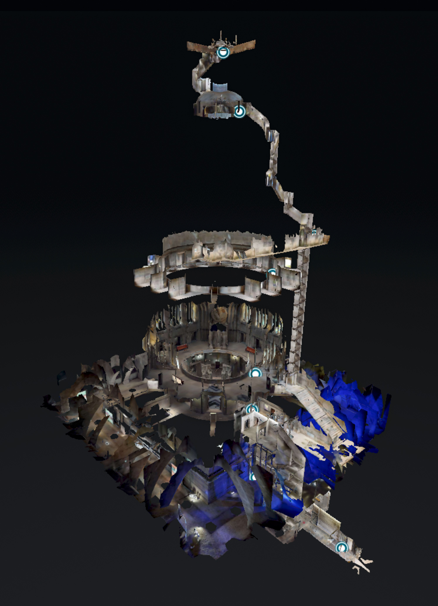 Dollhouse View of the Leipzig Battle of the Nations Monument. Largest monument building in Europe. Built to commemorate the largest field battle in human history to date.